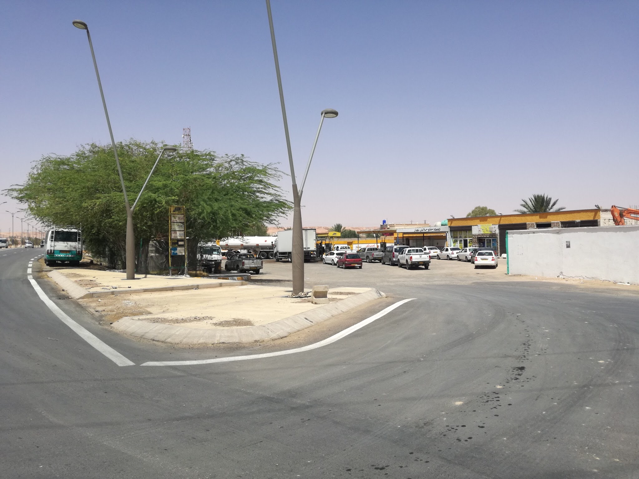 Ouargla